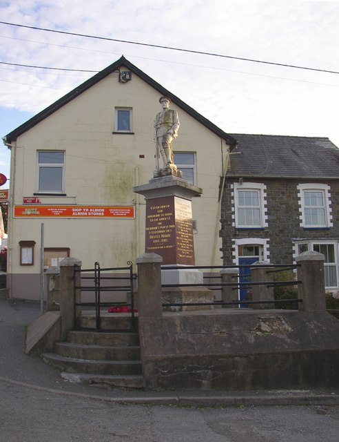 The War Memorial, Pencader Quite an impressive memorial for a small village. The post office is behind.